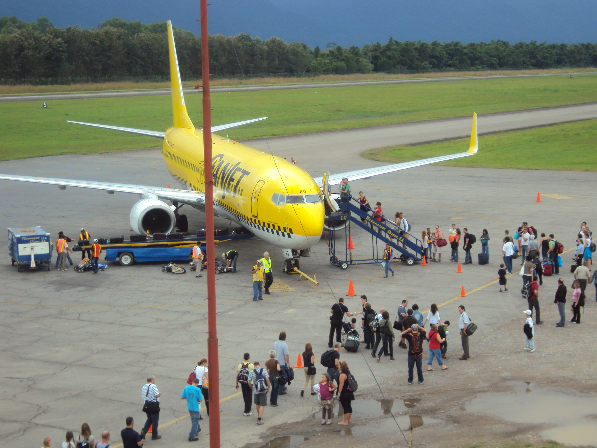 Canjet airlines plane. Golosón International Airport. La Ceiba, Atlántida, Honduras.